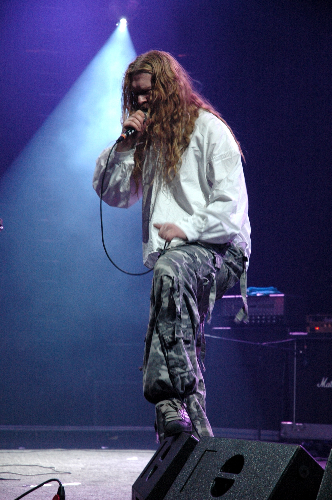 Simen "Vortex" Hestnæs from Arcturus at Metalmania Festival 2005 in Poland